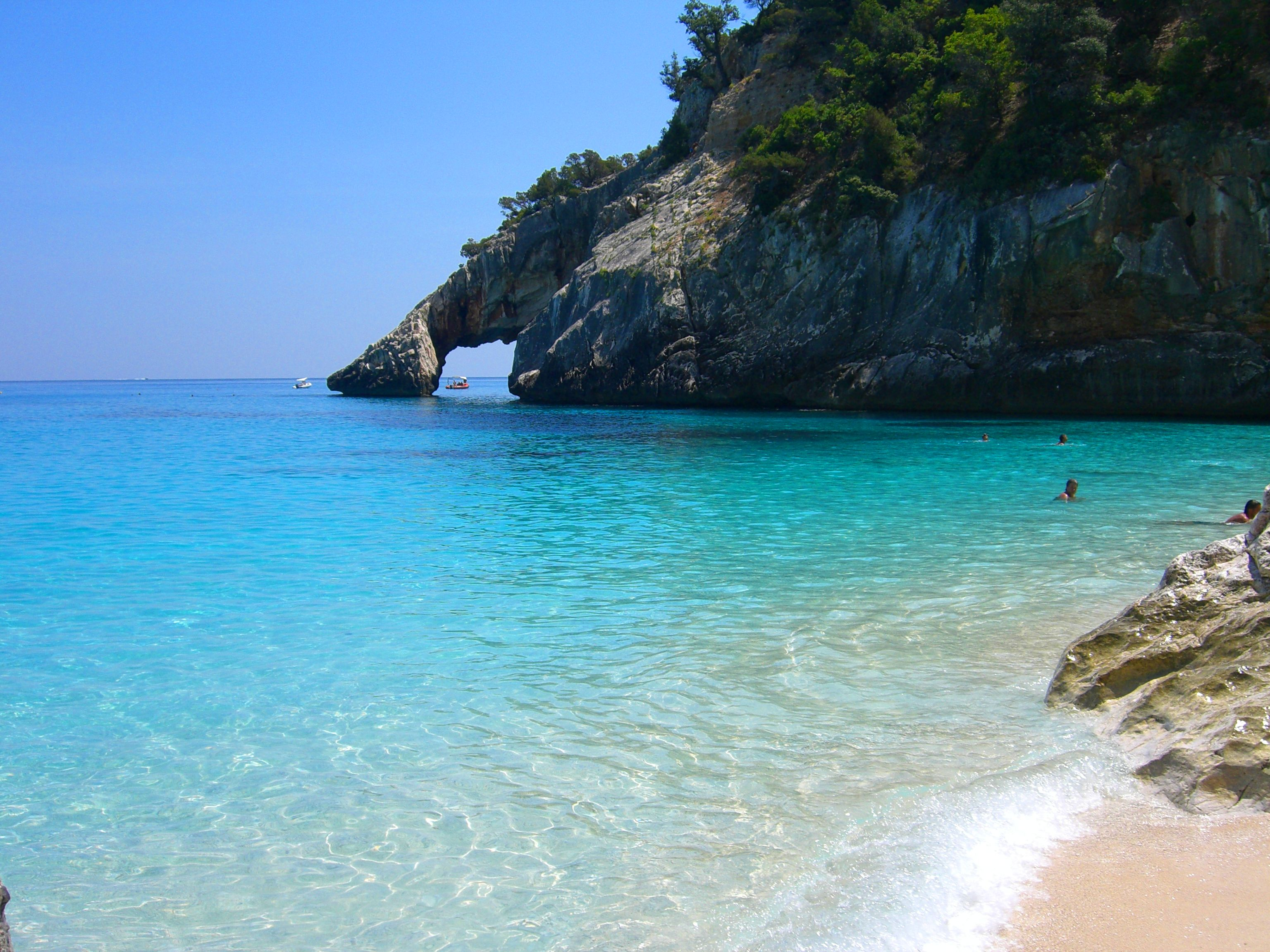 The natural arch of Goloritzé Cala, Sardinia - Italy